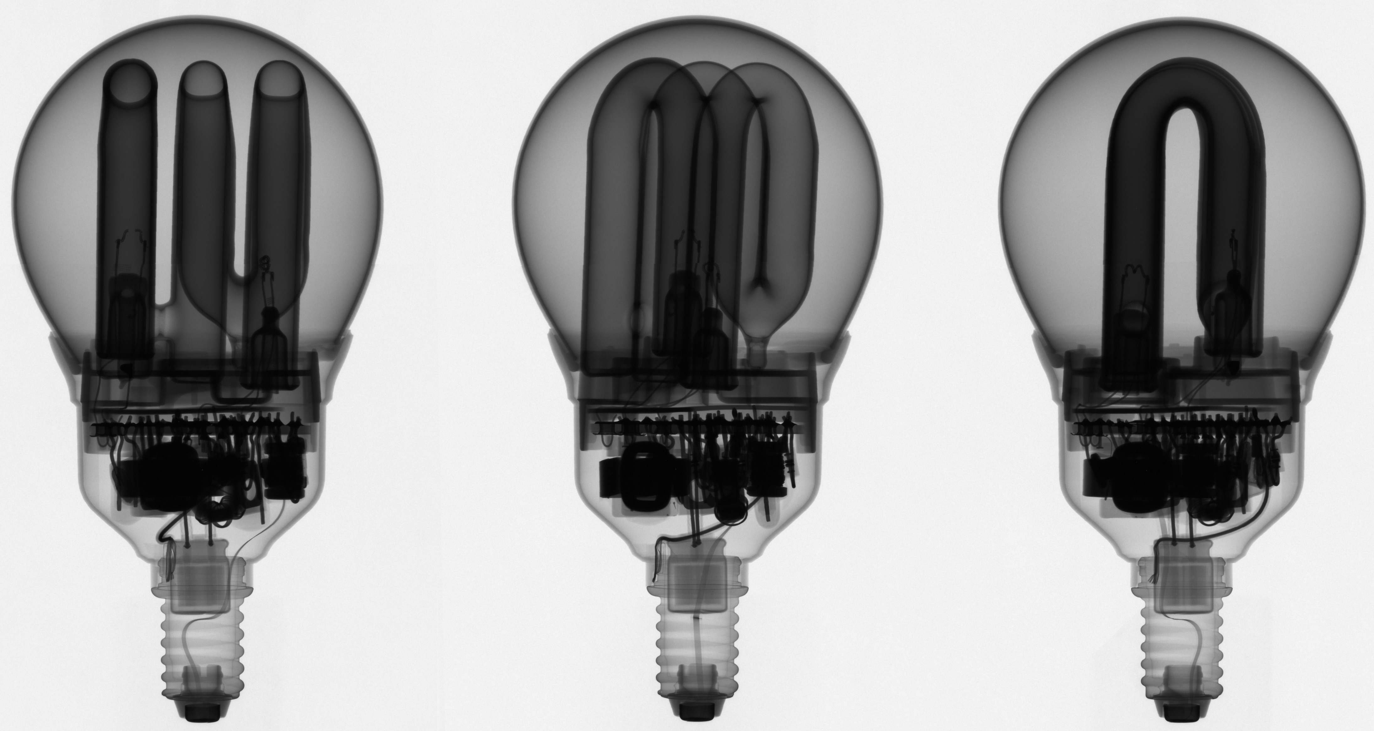 X-ray image stitched of six images, representing three views from different directions (0°, 45°, 90°) through a defective compact fluorescent lamp. Note the burned-through filament in the left image!